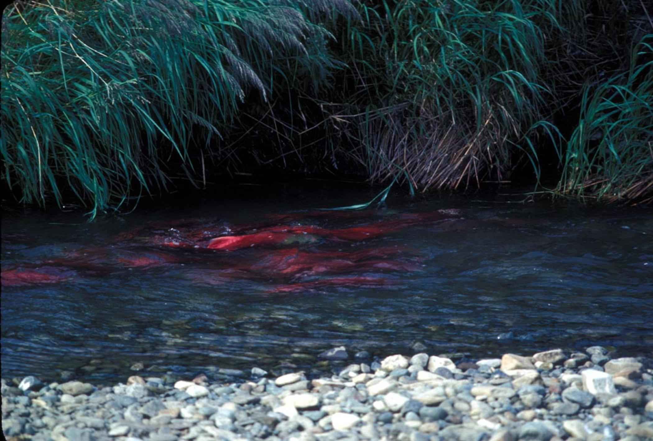 Image title: Red salmon or sockeye salmon in spawning bed Image from Public domain images website